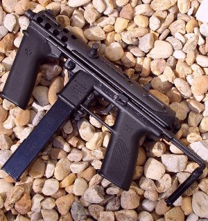 Interdynamic MP-9 submachinegun, rocks for background, 300 x 320 pixels.